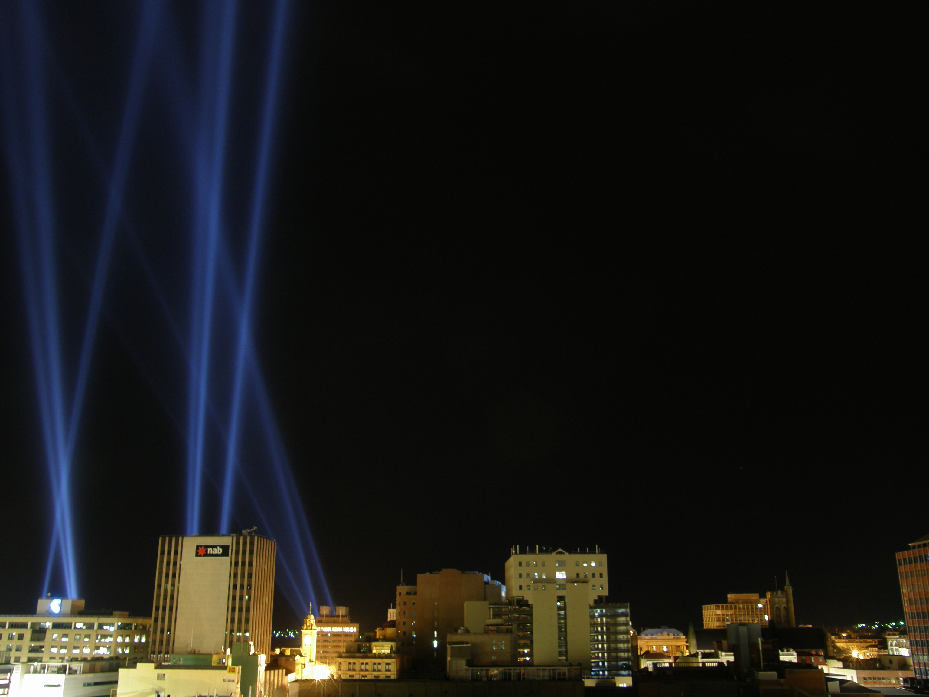 Dark Mofo 2014 - Articulated intersect